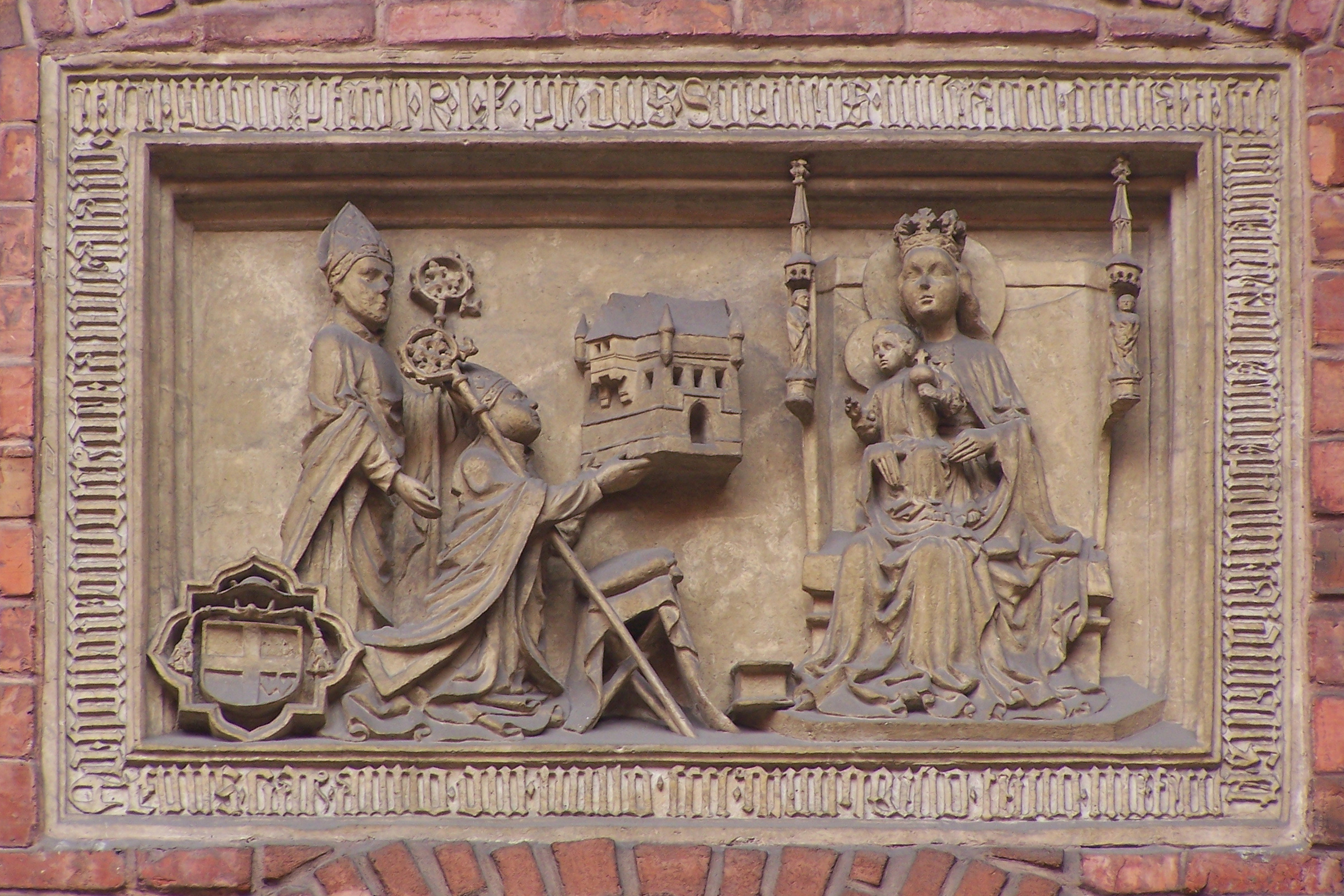 Zbigniew Oleśnicki Bishop of Krakow as founder of bursary in the Jagiellonian University (Collegium Maius, Krakow).